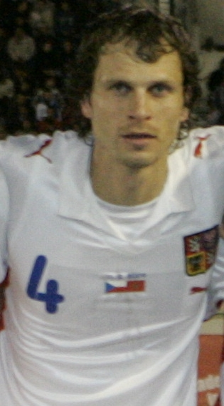 David Rozehnal (Czech Republic) before the friendly match against Morocco on February 11, 2009